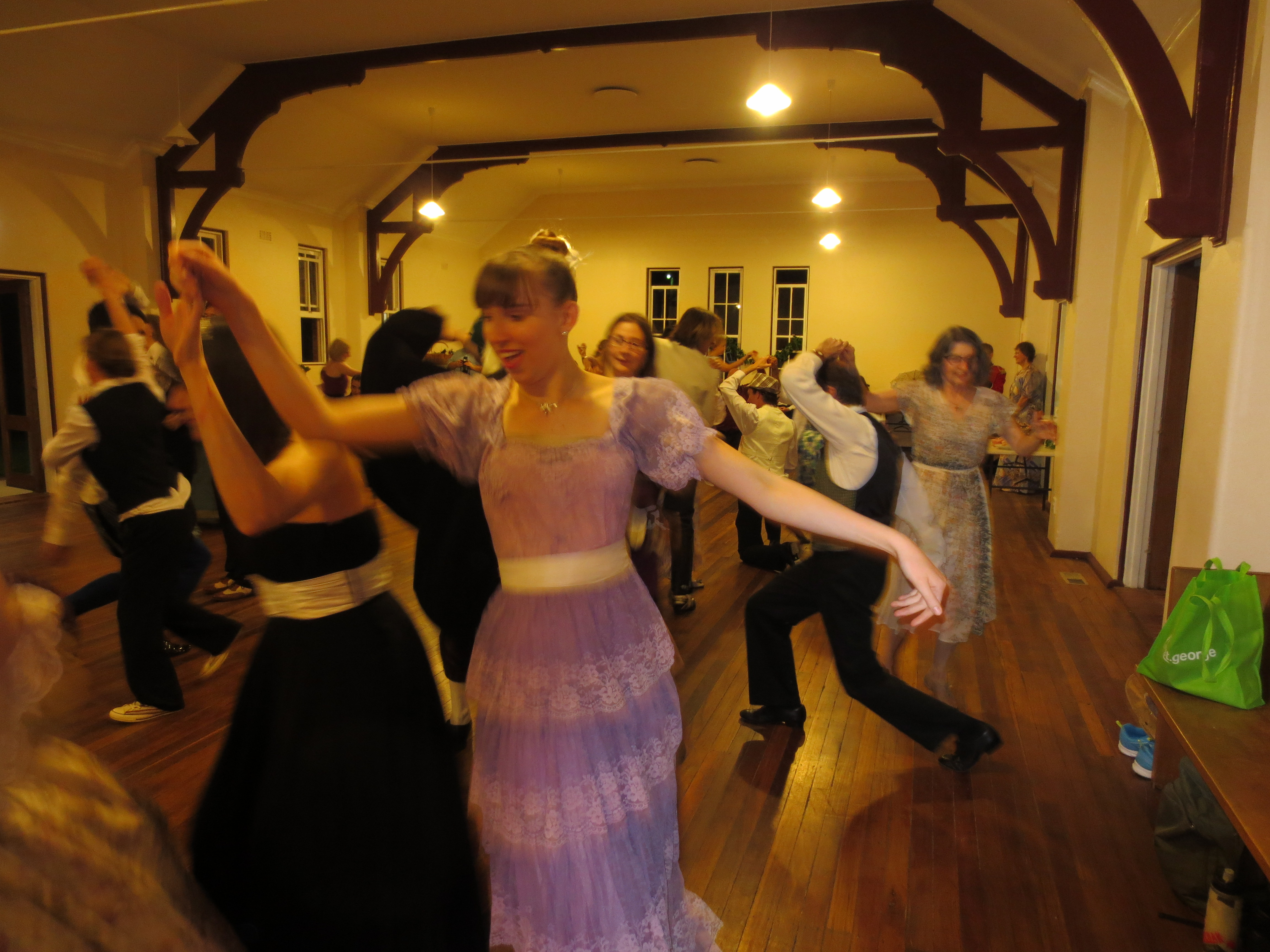 Dance held at All Saints Church Hall Ainslie Canberra in November 2015. Time travellers ball with called dances from all time eras from 15th to 20th century. Dance called by group Earthly Delights Danced to live music